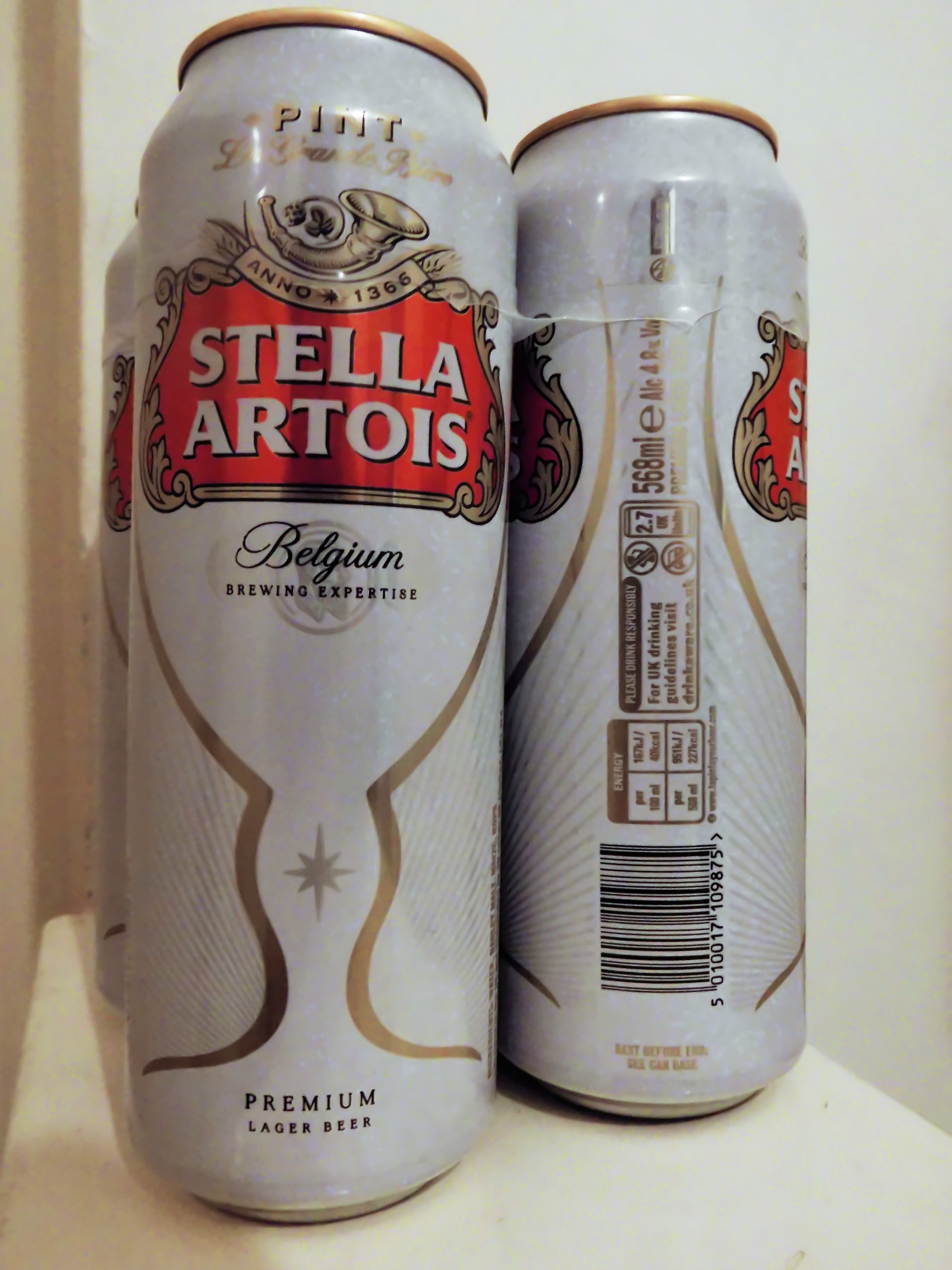 A four pack of larger, common in the UK sold in pint sized cans.